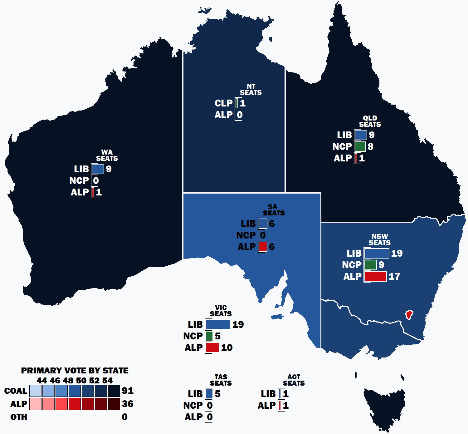 Result of the primary vote by state and territory in the 1975 Australian federal election.